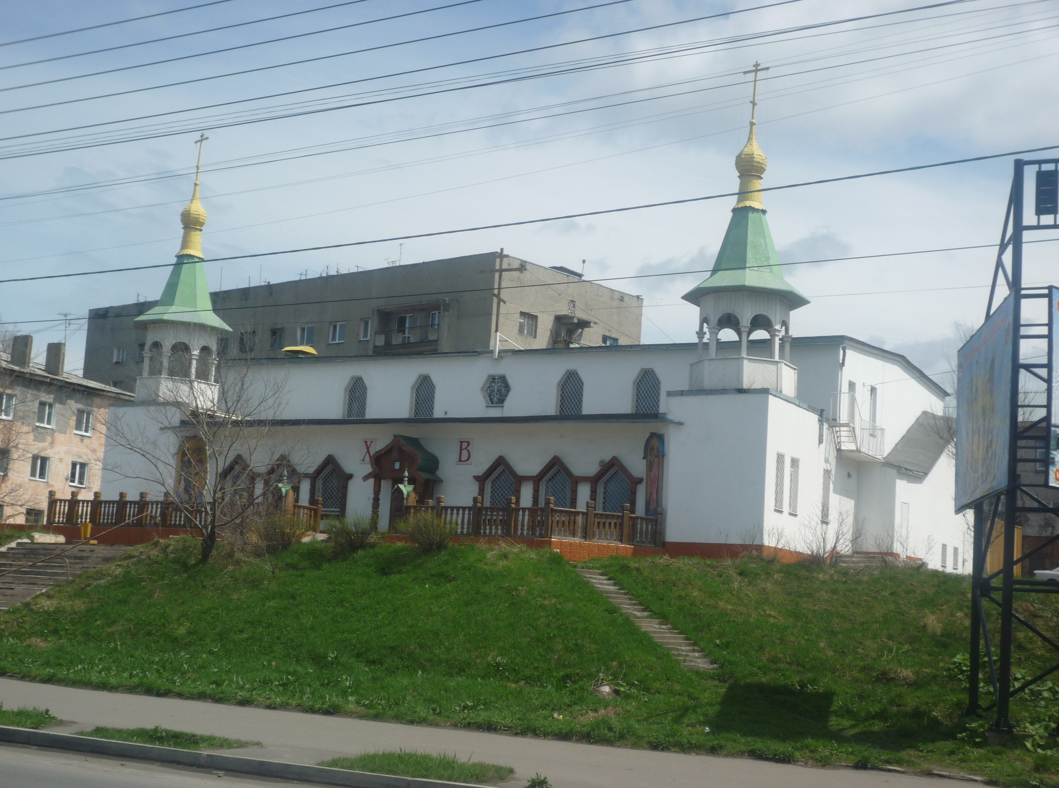 Храм Николая Чудотворца (Холмск)